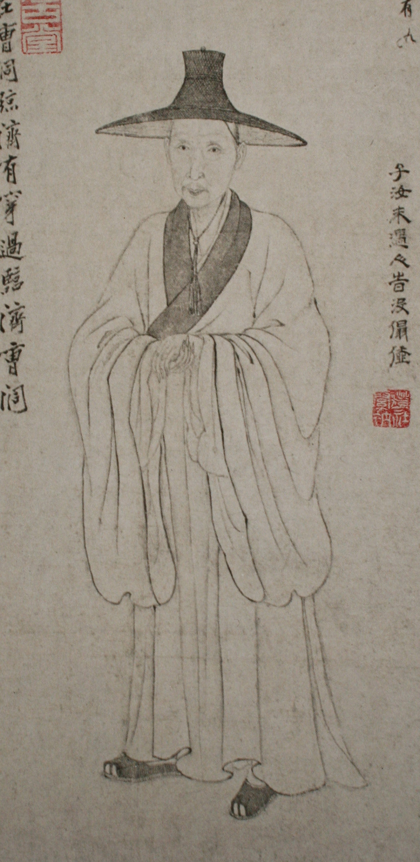 A portrait of Bada Shanren by Huang An Pin , detail of a hanging scroll portrait of geshen(an alias of Ba Da Shan Ren) with inscrptions by himself and others, ink on paper (whole 97 x 60.5cm) . 1674, Gallery of Bada Shanren Paintings and Calligraphy, Nonchen, Kansi Province, China